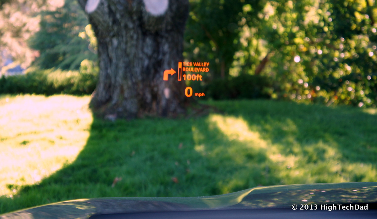 Photos from a 7-day photoshoot of the 2013 BMW X5 xdrive 35i. More information can be found at